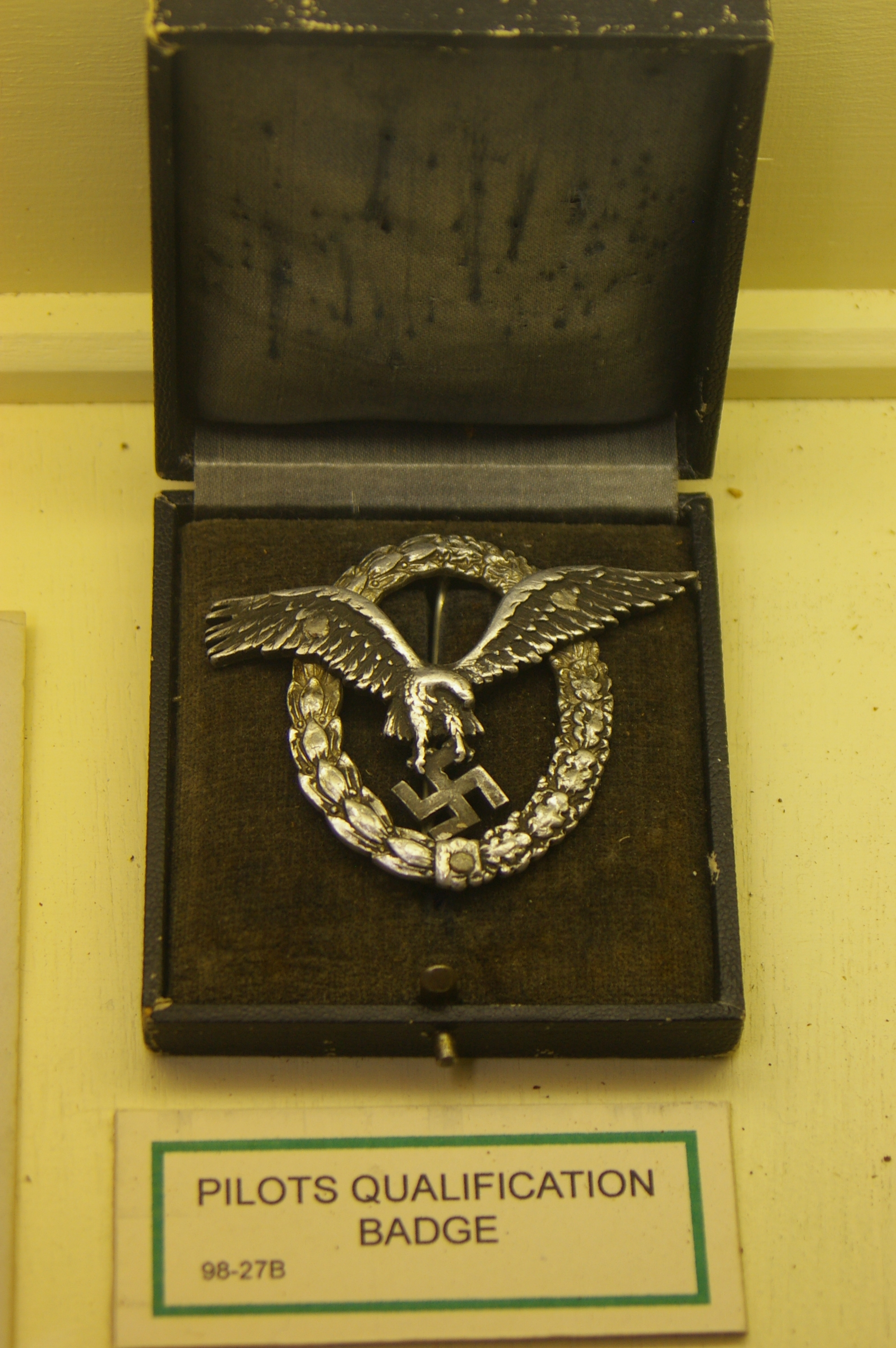 Luftwaffe Pilots qualification badge, on display in the RAAF museum Bull Creek WA